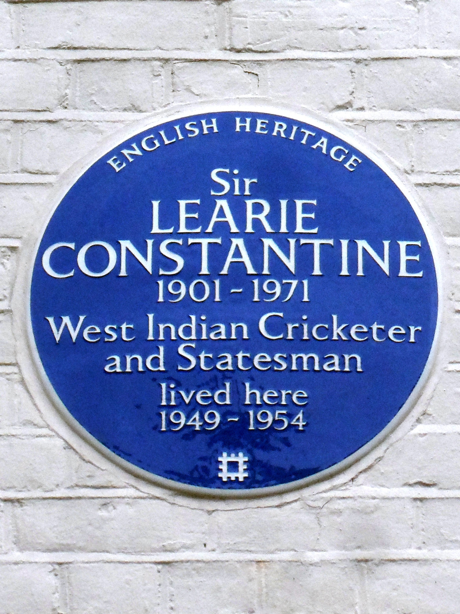 Blue plaque erected in 2013 by English Heritage at 101 Lexham Gardens, Earls Court, London W8 6JN, Royal Borough of Kensington and Chelsea